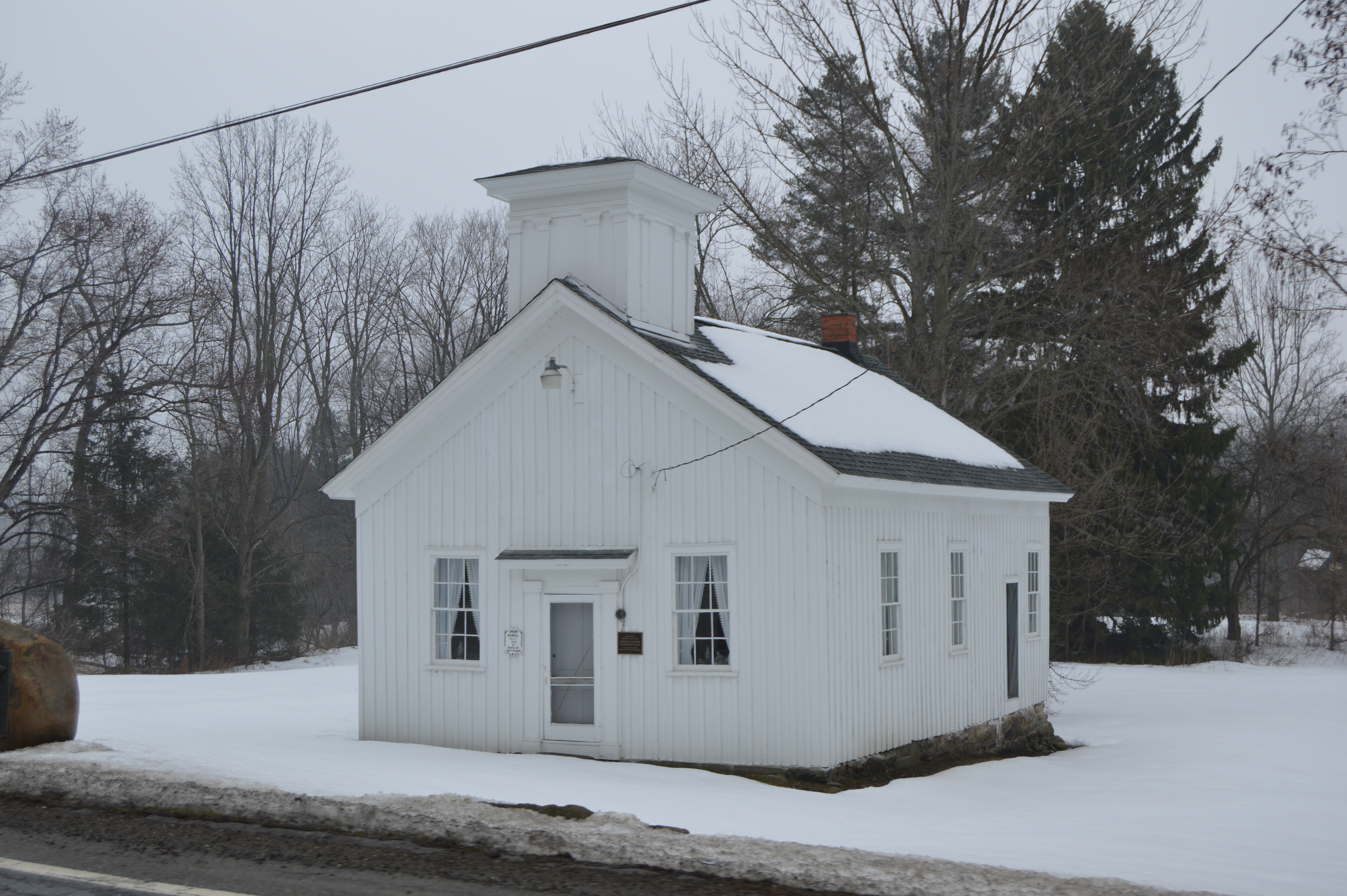 Front and southern side of the South Newbury Union Chapel, located at 15829 Ravenna Road (State Route 44) in Newbury Township, Geauga County, Ohio, United States. Built in 1858, it is listed on the National Register of Historic Places.